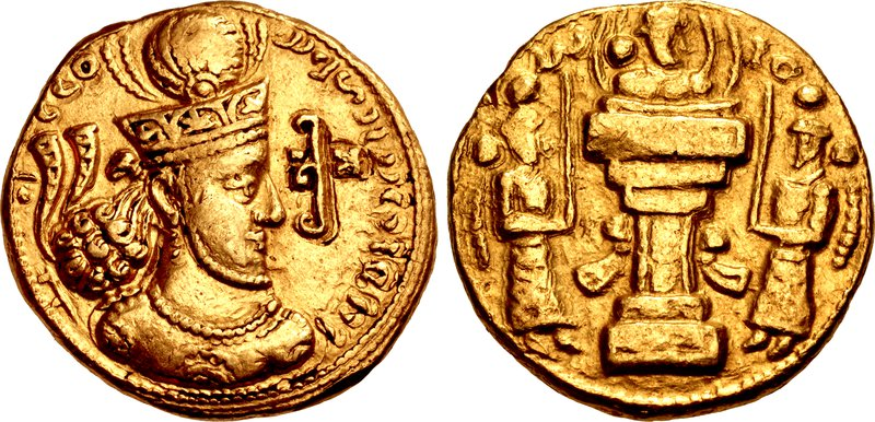 SASANIAN KINGS. Šābuhr (Shahpur) III. AD 383-388. AV Dinar (19mm, 7.32 g, 3h). Sind mint. Bust right, wearing flat-topped crown decorated with palmettes, and korymbos; śri and uncertain letter to right; pseudo-legend around / Fire altar with ribbons and bust right in flames; flanked by two attendants, each wearing close-fitting cap with korymbos; pseudo-legends above. SNS III –; Göbl –; Paruck –; Saaedi –: Sunrise 879 (this coin). Good VF, traces of deposits in devices on obverse. Extremely rare.